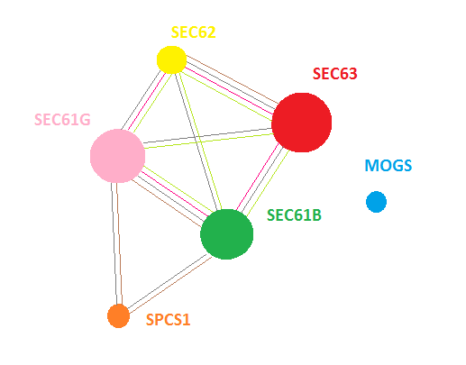 Visual description of the diferent interactions between the SEC62 gen and many other gens, for example SEC63.